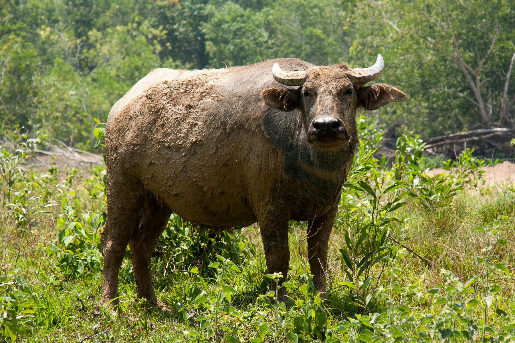 Menumbok, Sabah: Water Buffalo (Kerbau)